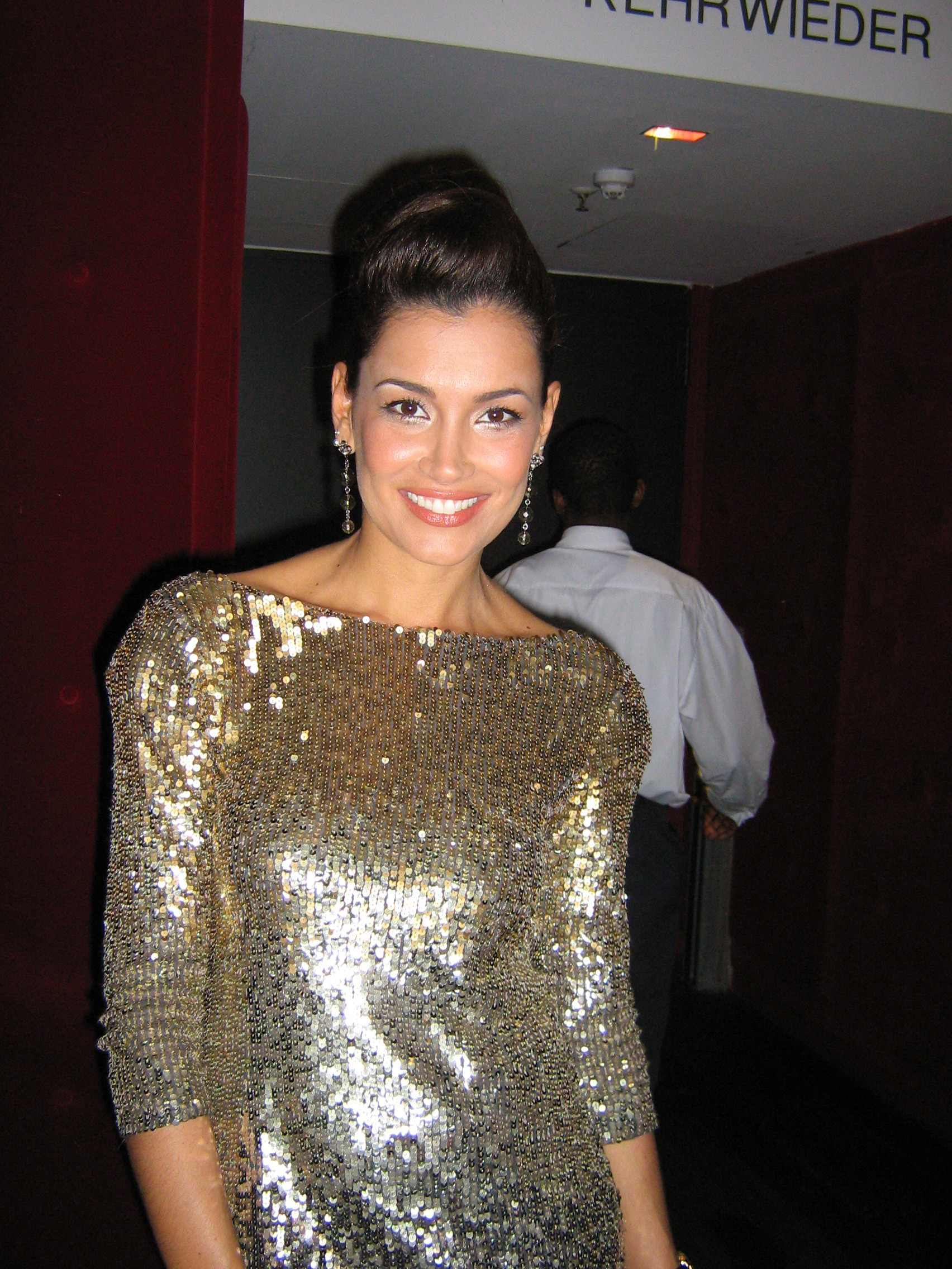 Jana Ina Zarrella (2010)